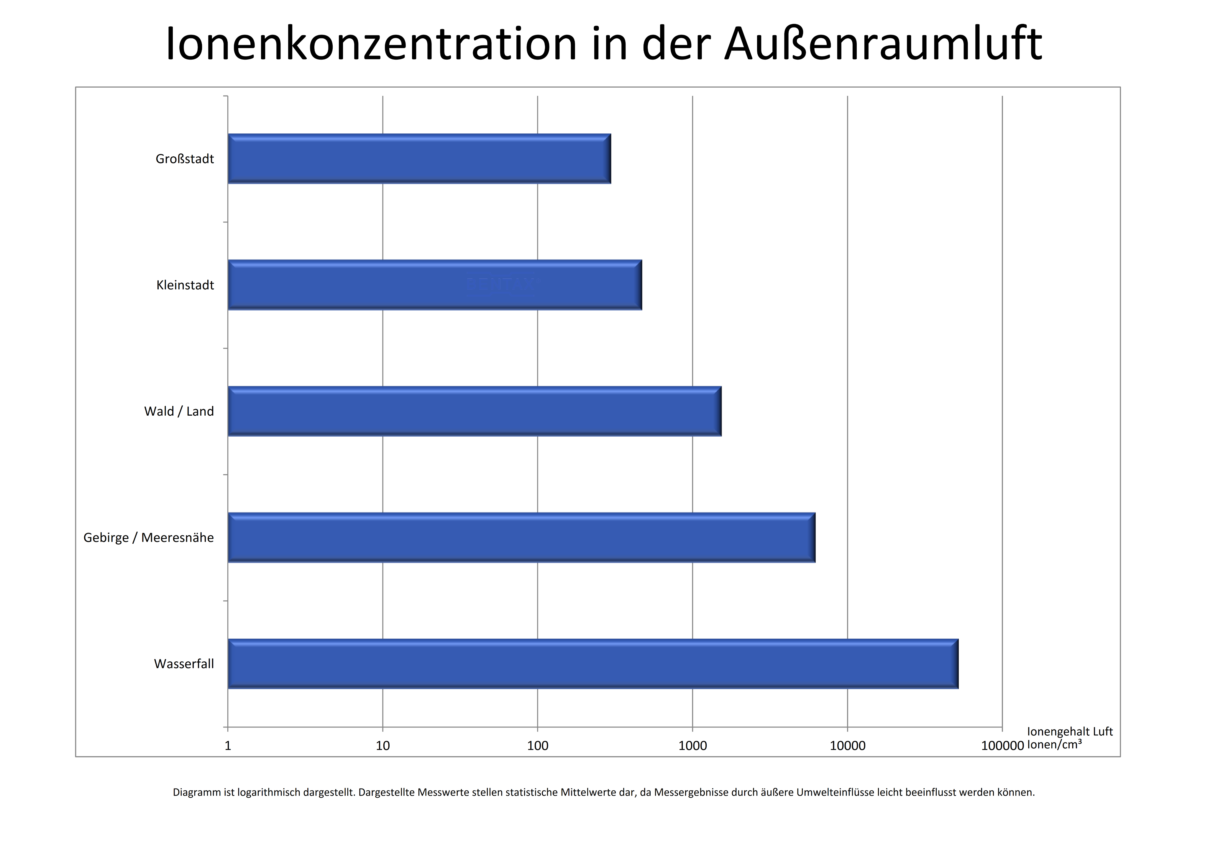 Ion concentration of the outside air.